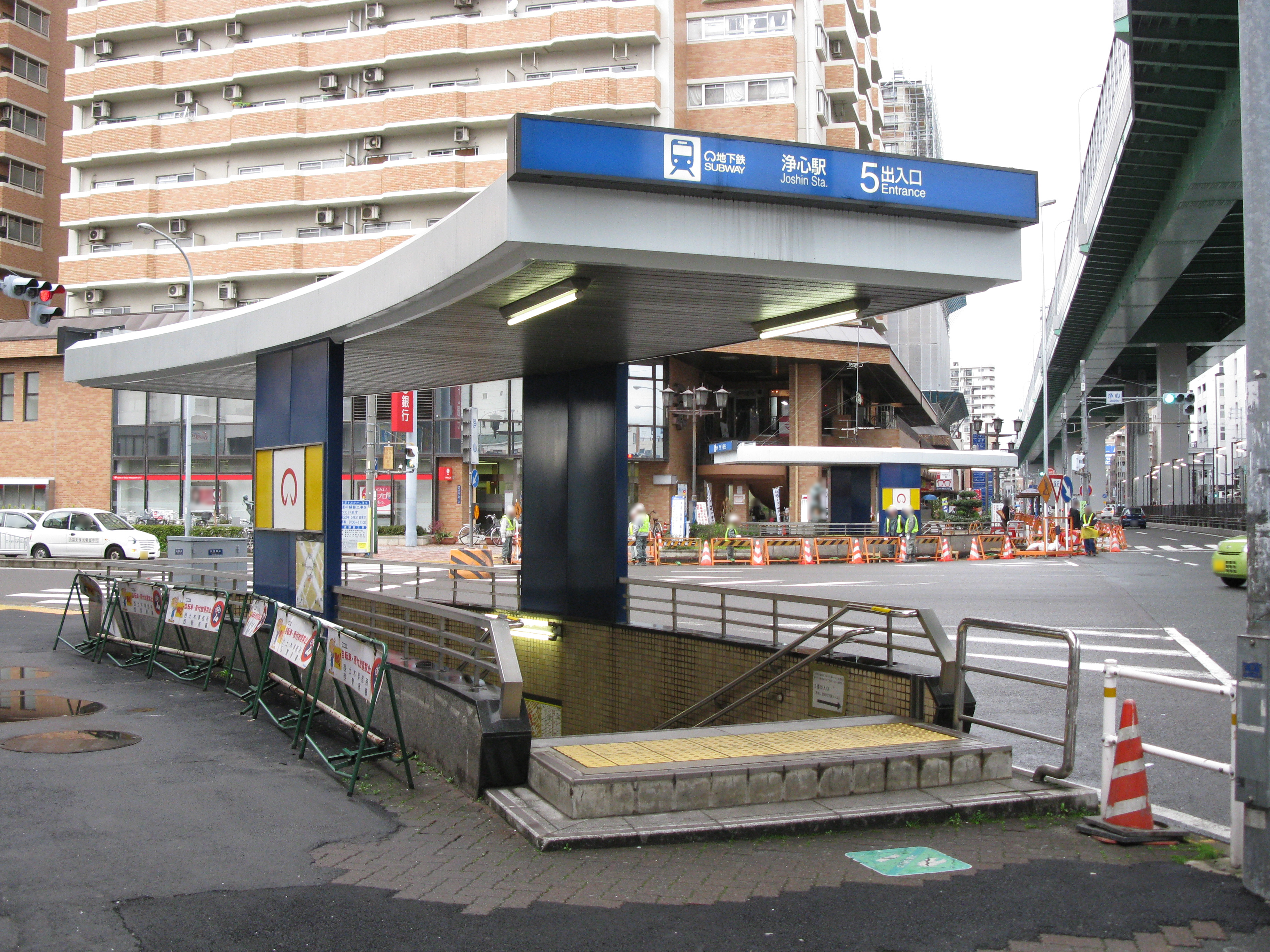 Jōshin Station no.5 entrance (Nagoya Municipal Subway Tsurumai Line)